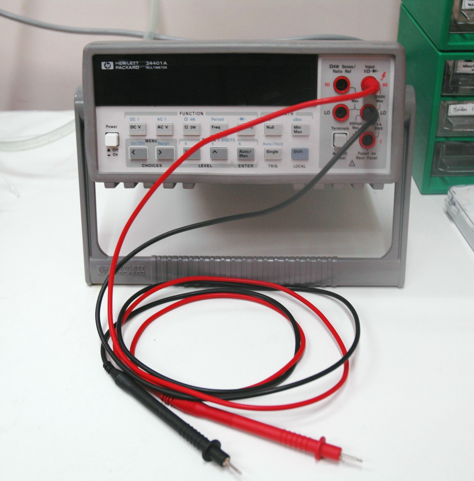 Benchtop Multimeter. Hewlett-Packard 34401A.